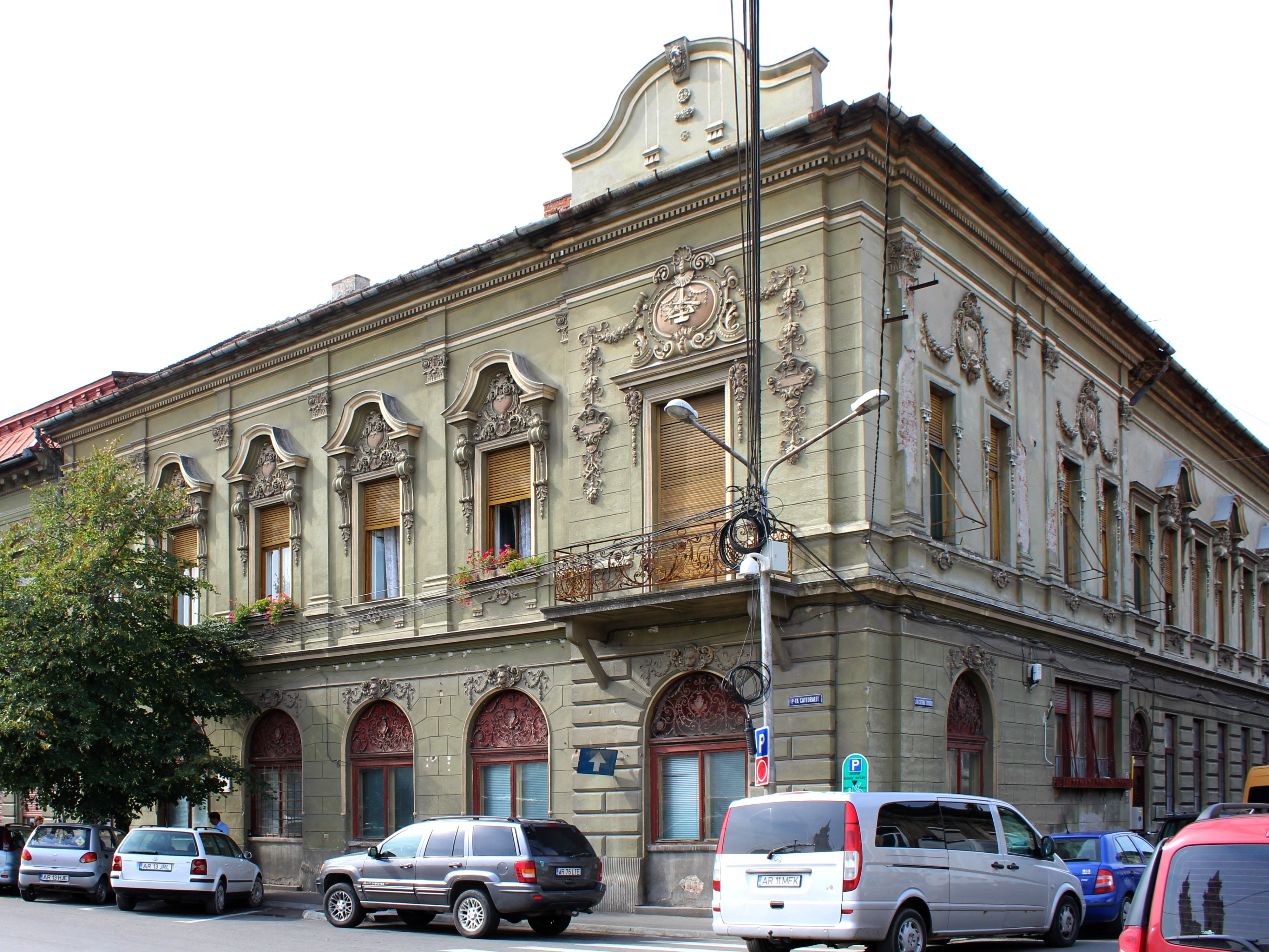 Tabacovici Palace, Arad, România.